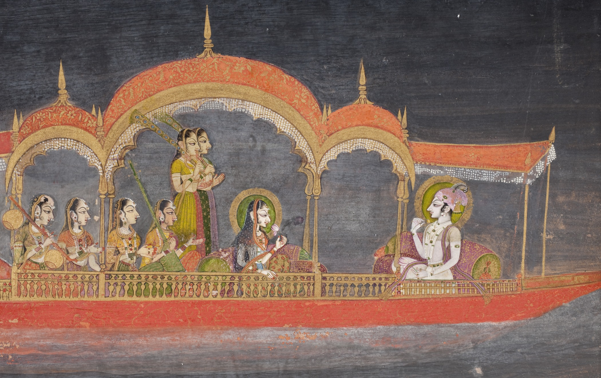 India, Rajasthan, Kishangarh, circa 1750-1775 Drawings; watercolors Opaque watercolor and gold on paper 14 1/2 x 22 in. (36.83 x 55.88 cm) Gift of Paul F. Walter (AC1999.264.1) South and Southeast Asian Art